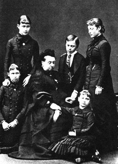 Princess Irene, kneeling on the left, with her grandmother Queen Victoria and, from left to right, her sister Elizabeth, brother Ernst-Ludwig, sister Victoria and, seated on the floor, her sister Alix in February 1879, two months after the death of her mother.